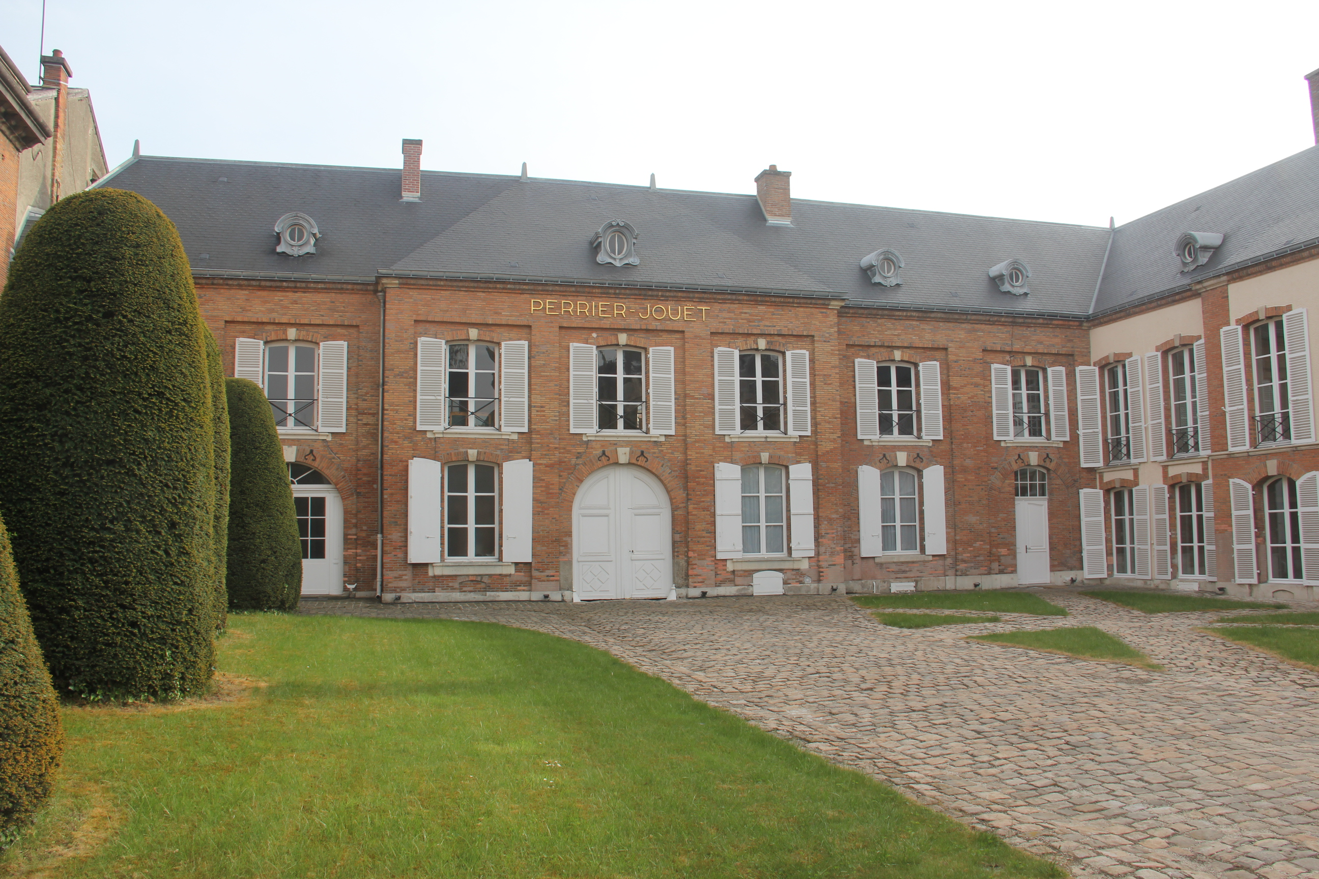 Perrier Jouet house in Epernay